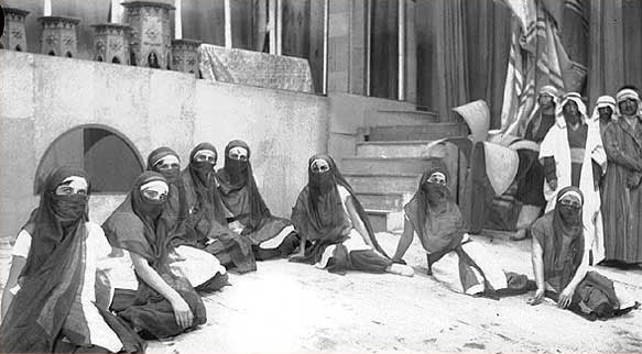 Stage from the opera Leyla and Majnun (1908) by Uzeyir Hajibeyov